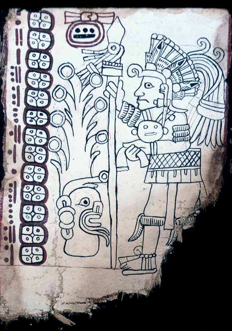 Codex Grolier, page 7.